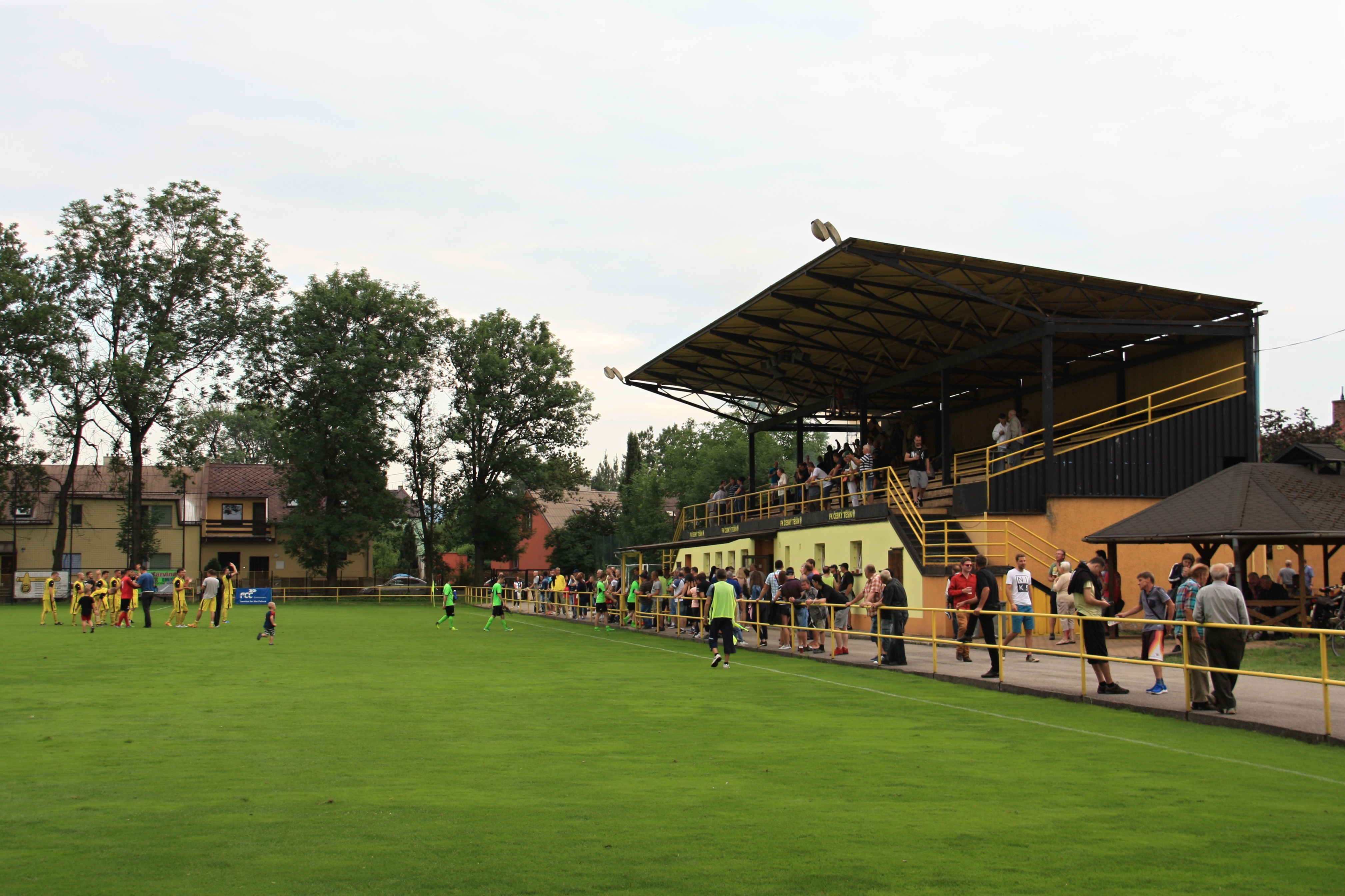 A football match between FK Český Těšín and FK SK Polanka nad Odrou on June 16 2018